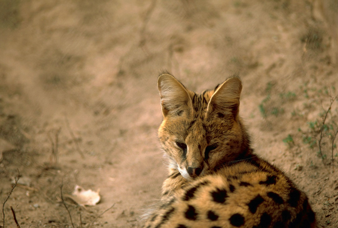 Serval cat (Leptailurus serval)